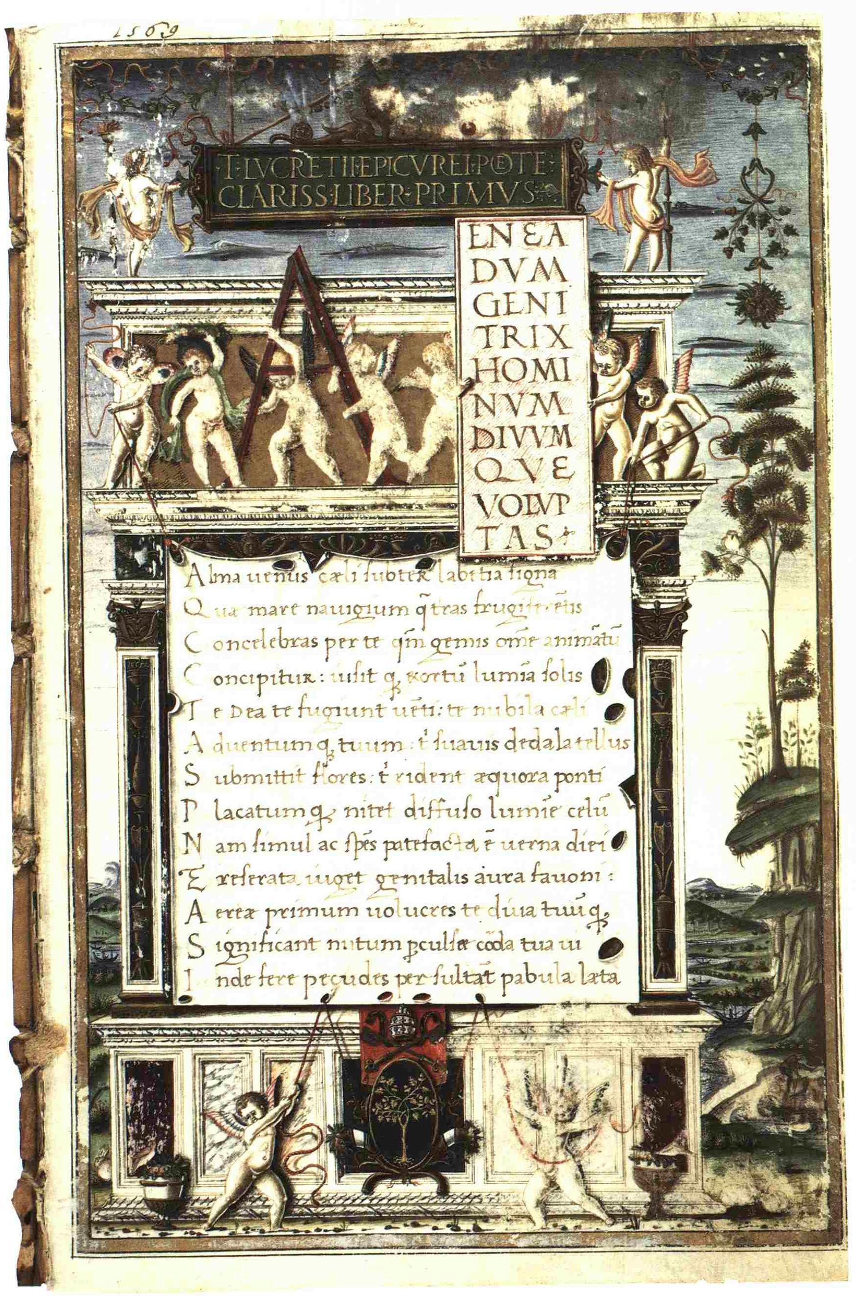 The beginning of the poem „De rerum natura“ in a manuscript written for Pope Sixtus IV: Vatican City, Biblioteca Apostolica Vaticana, Vat. lat. 1569, fol. 1r.